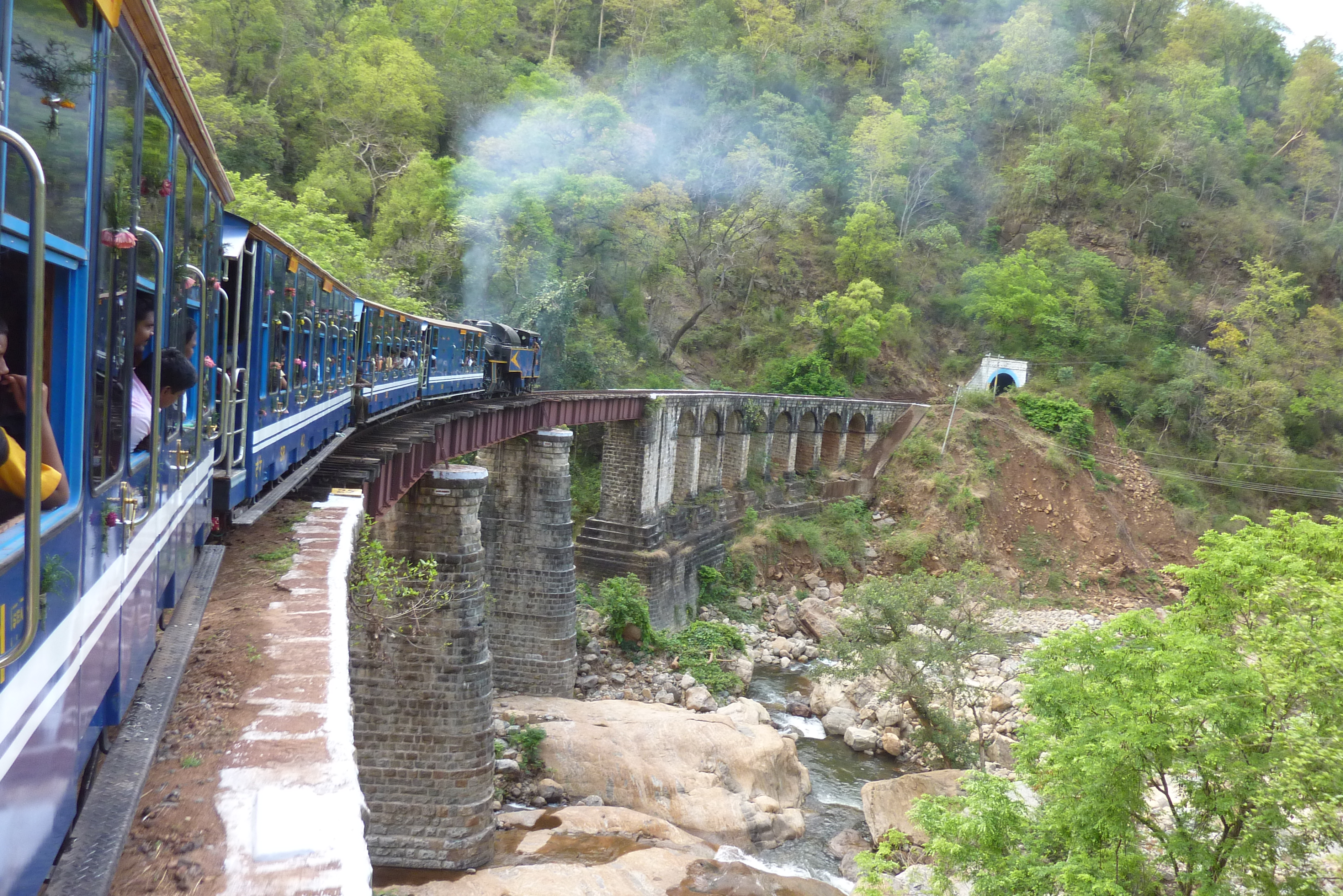 Nilgiri Mountain Railway on Bridge, May 2010